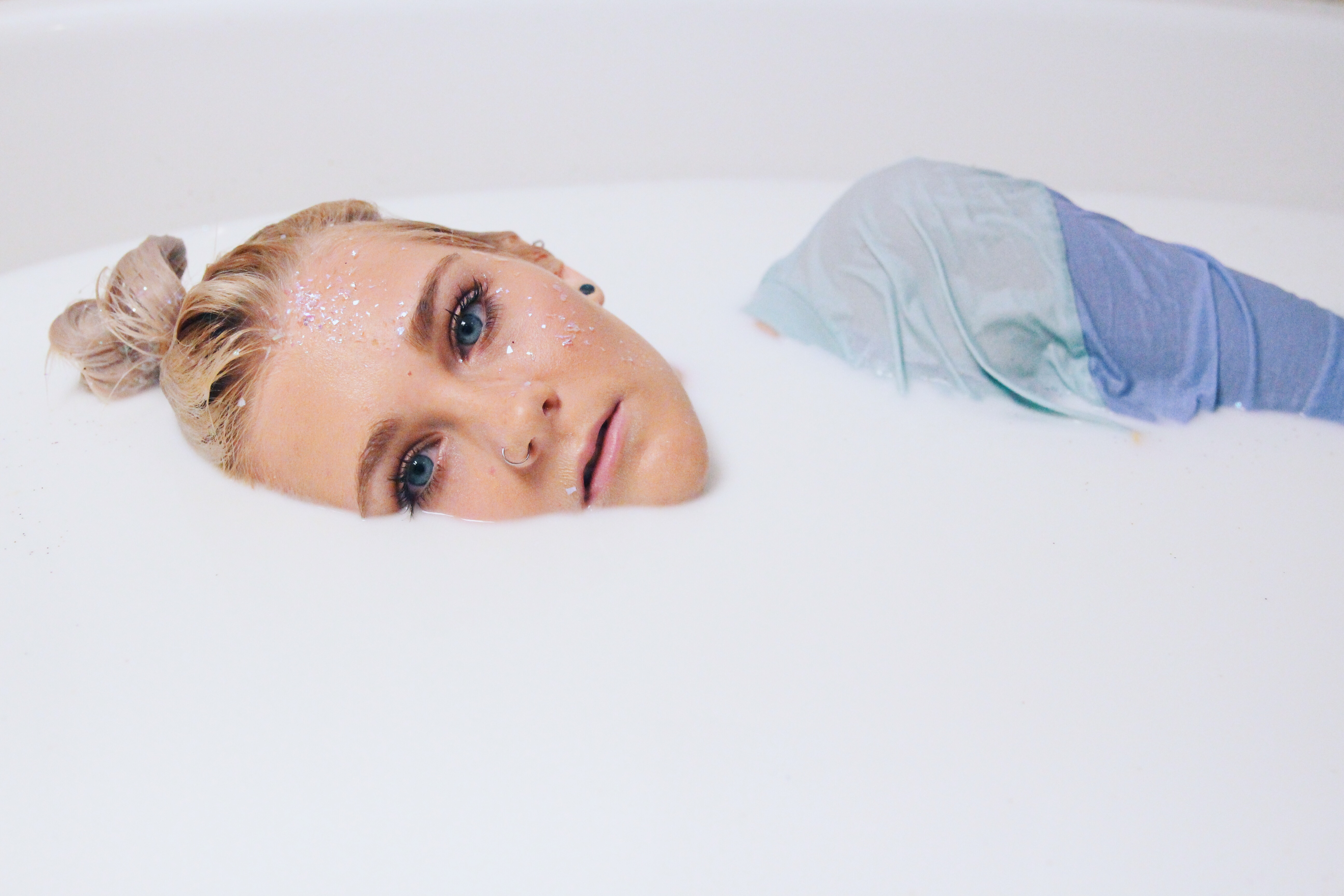 averie woodard 2016-07-18